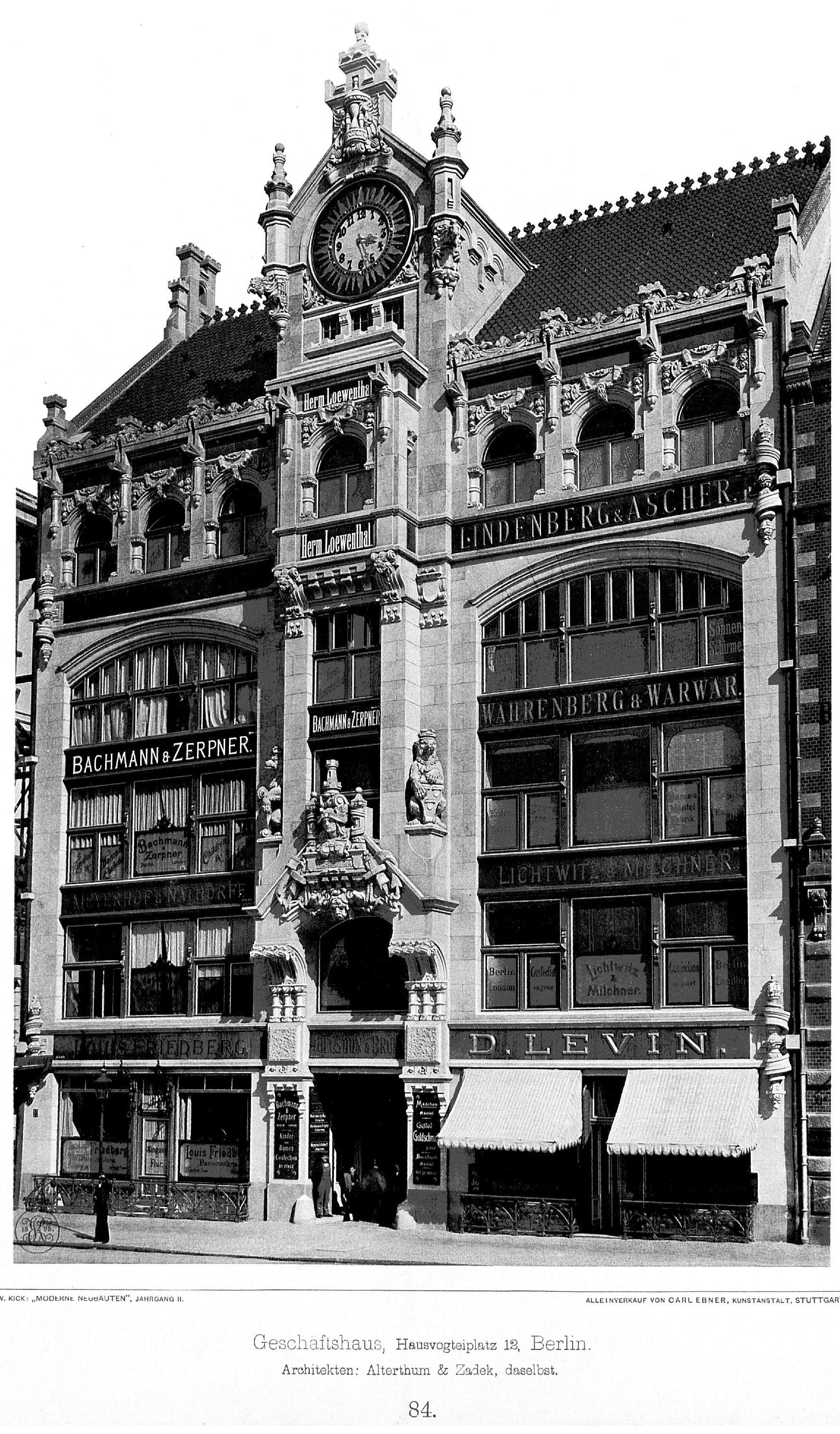 Geschäftshaus_Hausvogteiplatz_12,_Berlin,_Architekten_Alterthum_&_Zadek,_Berlin,_Tafel_84,_Kick_Jahrgang_II.jpg